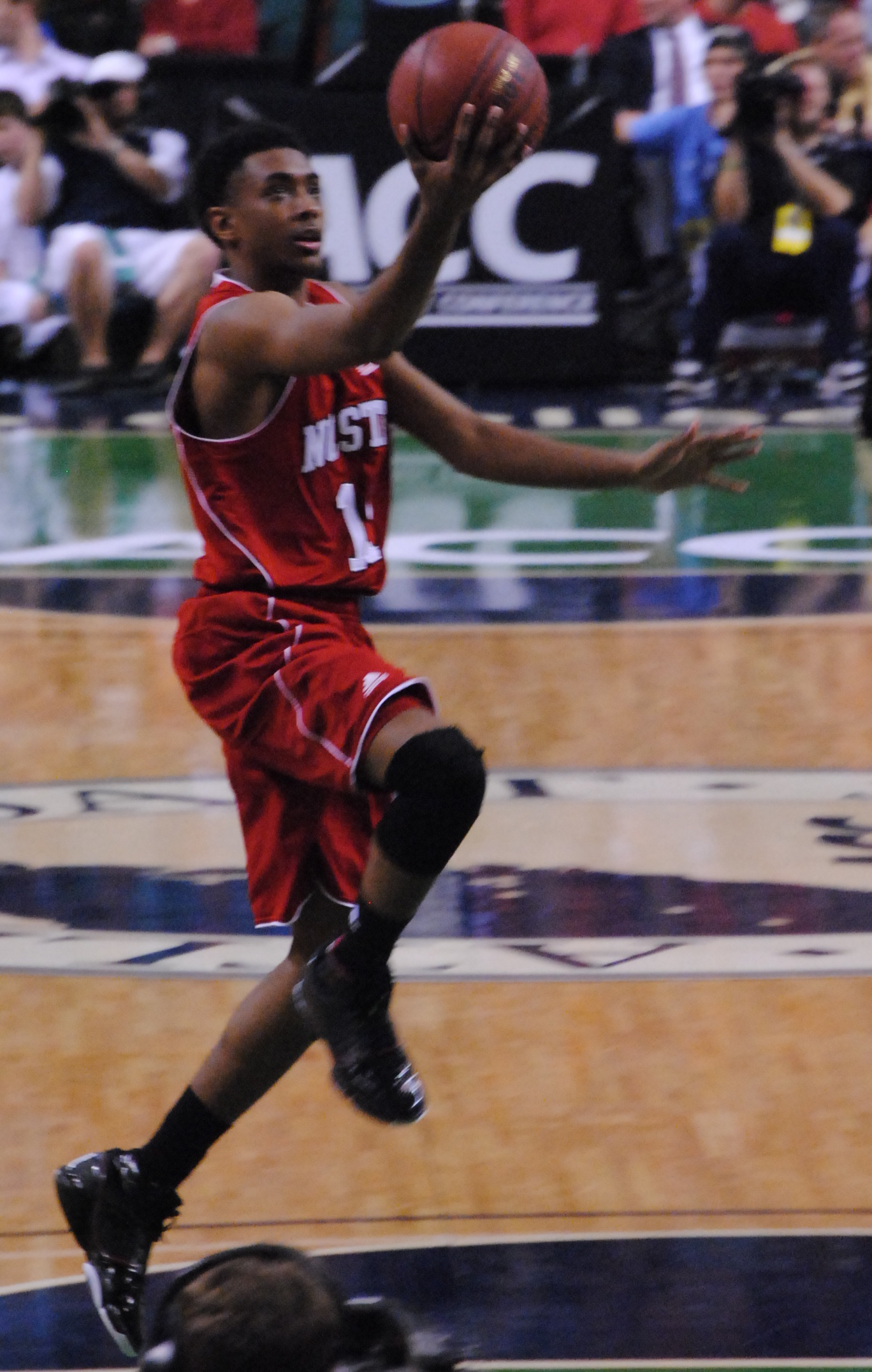 Ryan Harrow goes in for the lay up